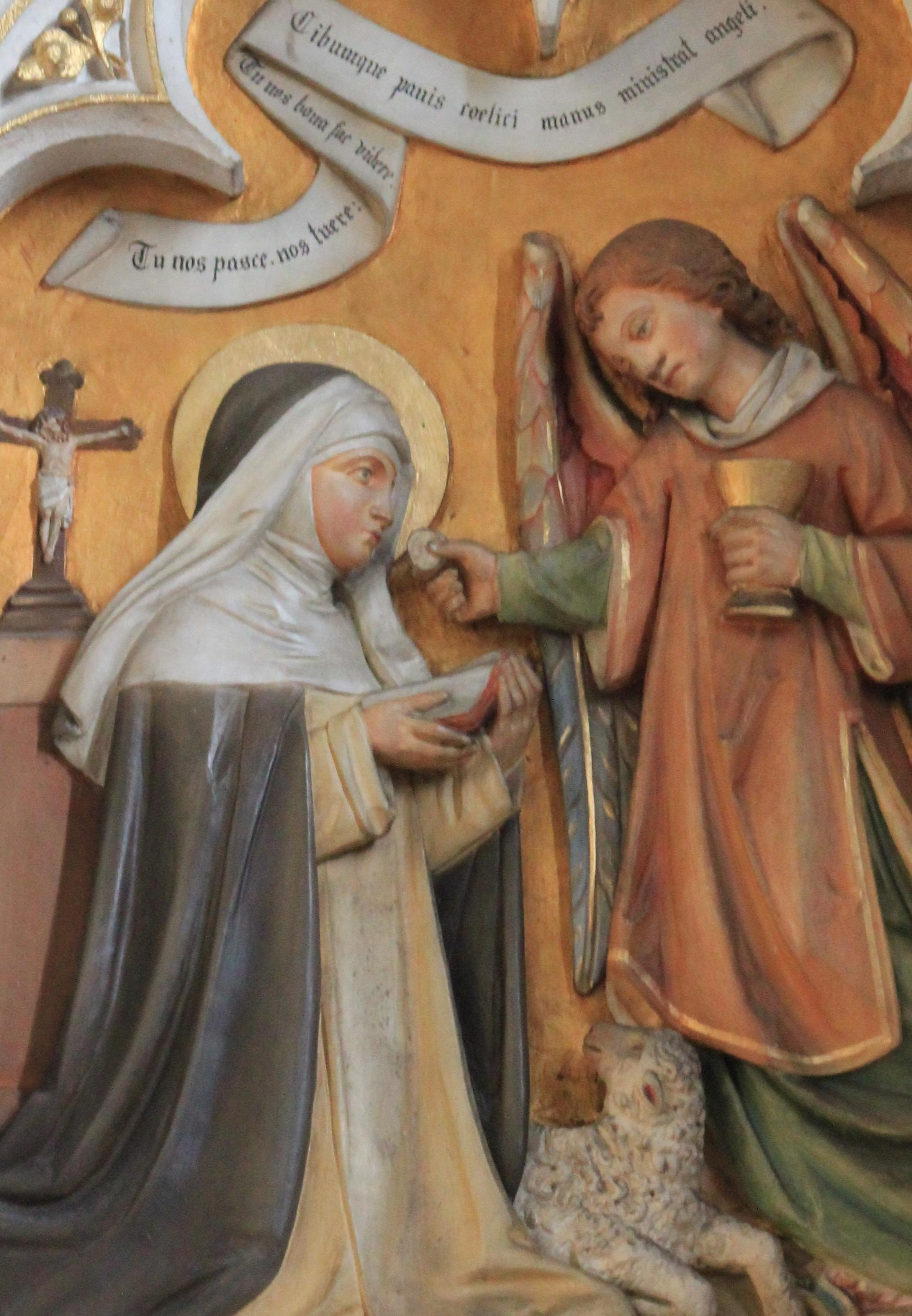 Dominican-Order-church in Friesach: Main altar: Agnes of Montepulciano